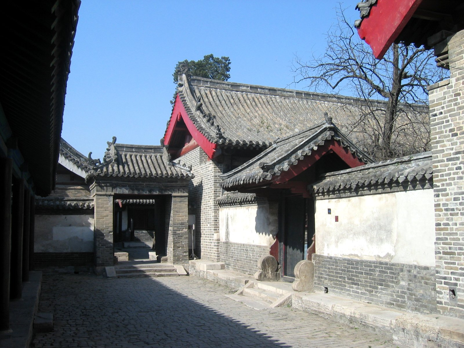 Photograph of a courtyard in the Kong Family Mansion in Qufu, Shandong Province, хуина. Photograph taken on April 21, 2005 by Rolf Müller.